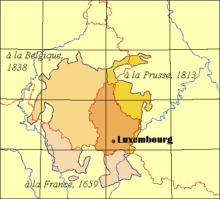 Map illustrating the successive partitions of Luxembourg to France, Prussia, and Belgium, with French explanations.